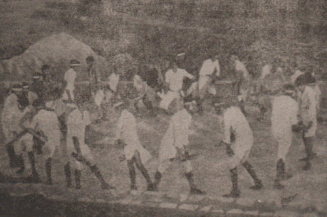 Chekka Bhajana or "Wooden Plank Bhajan" is a form of folk dance from Andhra Pradesh.